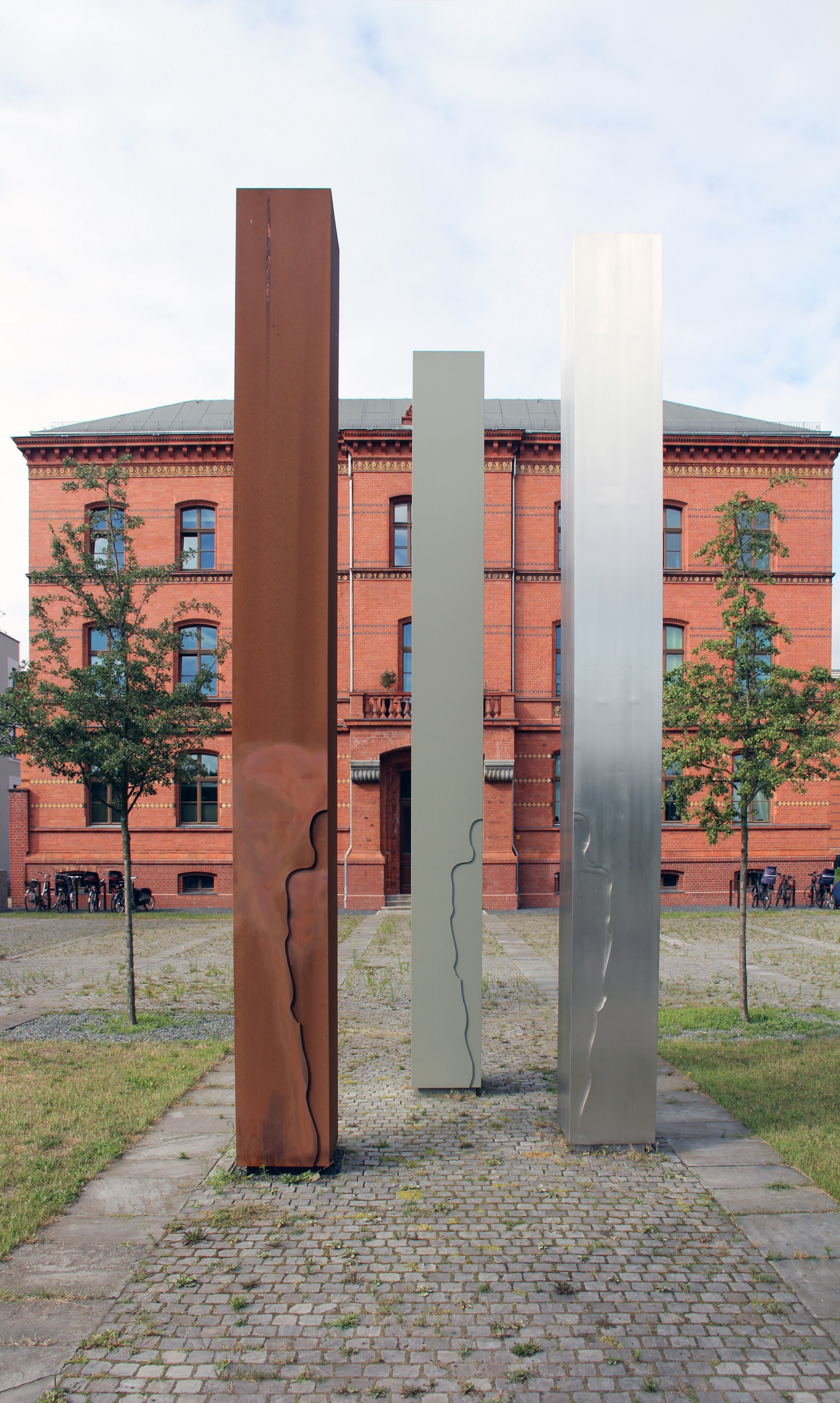 Sculpture, "Gefängnis Rummelsburg" by Helga Lieser, 2015, Hauptstraße 8, Berlin-Rummelsburg, Germany